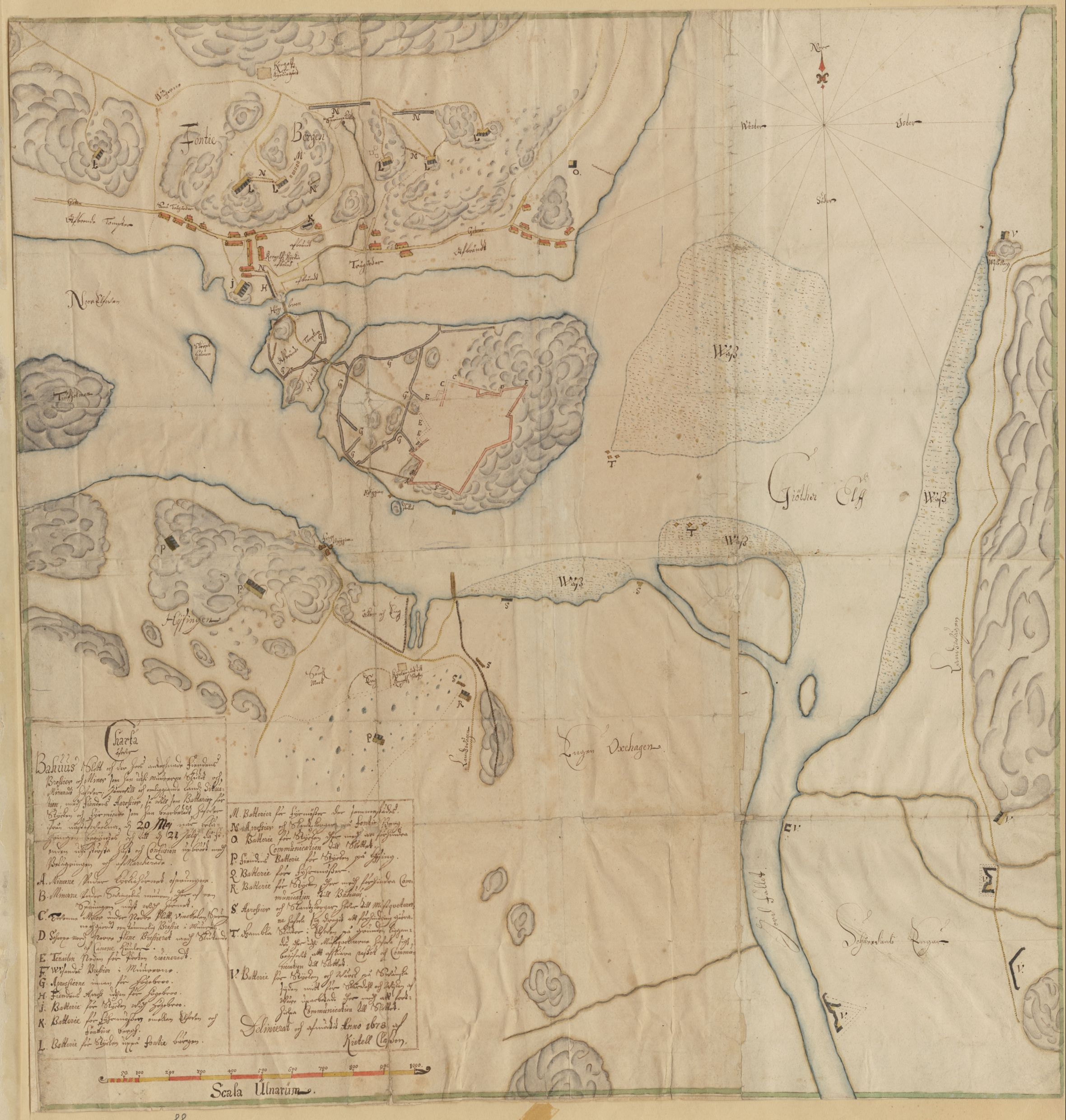 Map of Bohus castle, and surroundings, after the danish/norwegian siege in 1678.